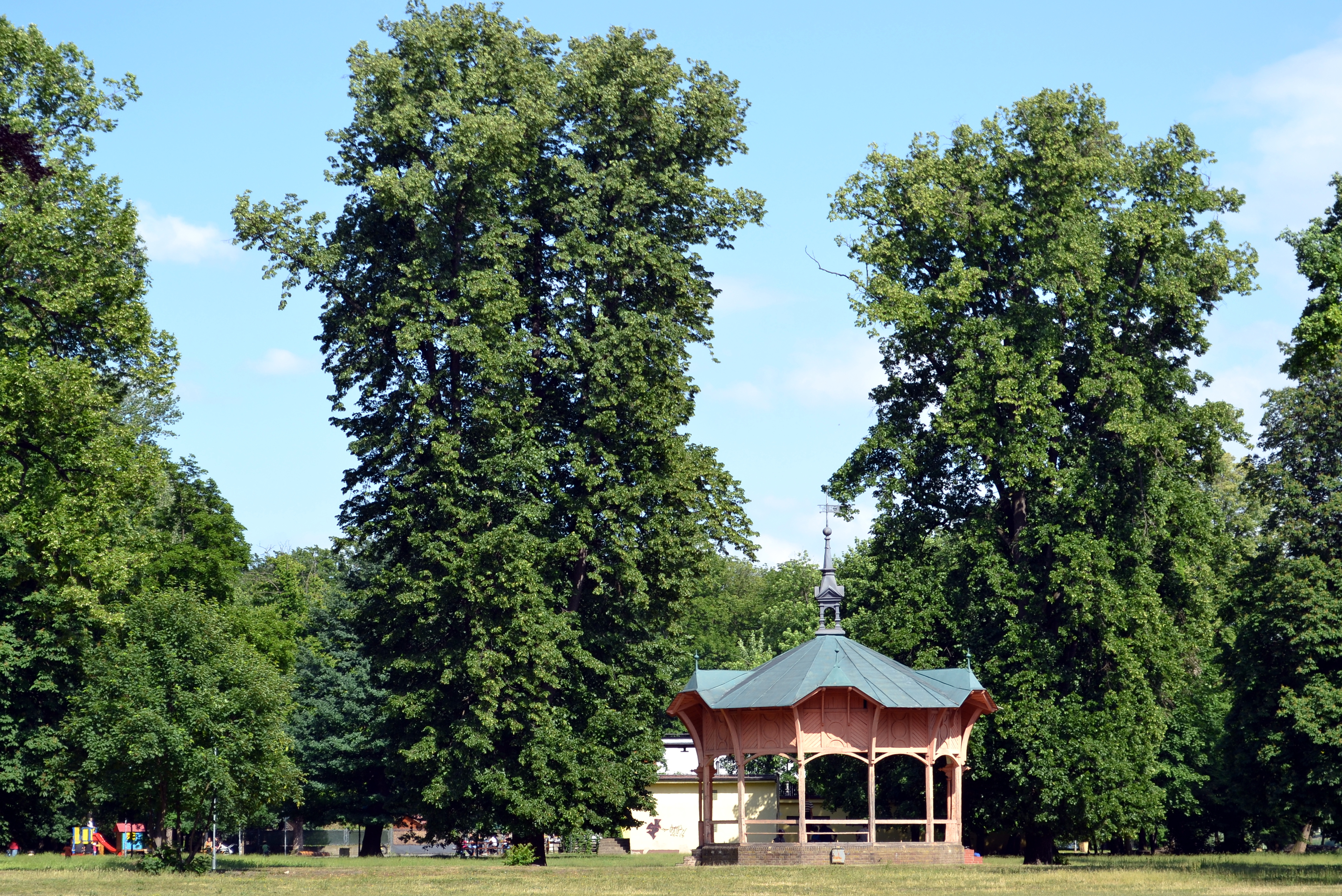 Park and its art nouveau gazebo on Střelecký island in Litoměřice, Ústí nad Labem Region, Czech Republic.